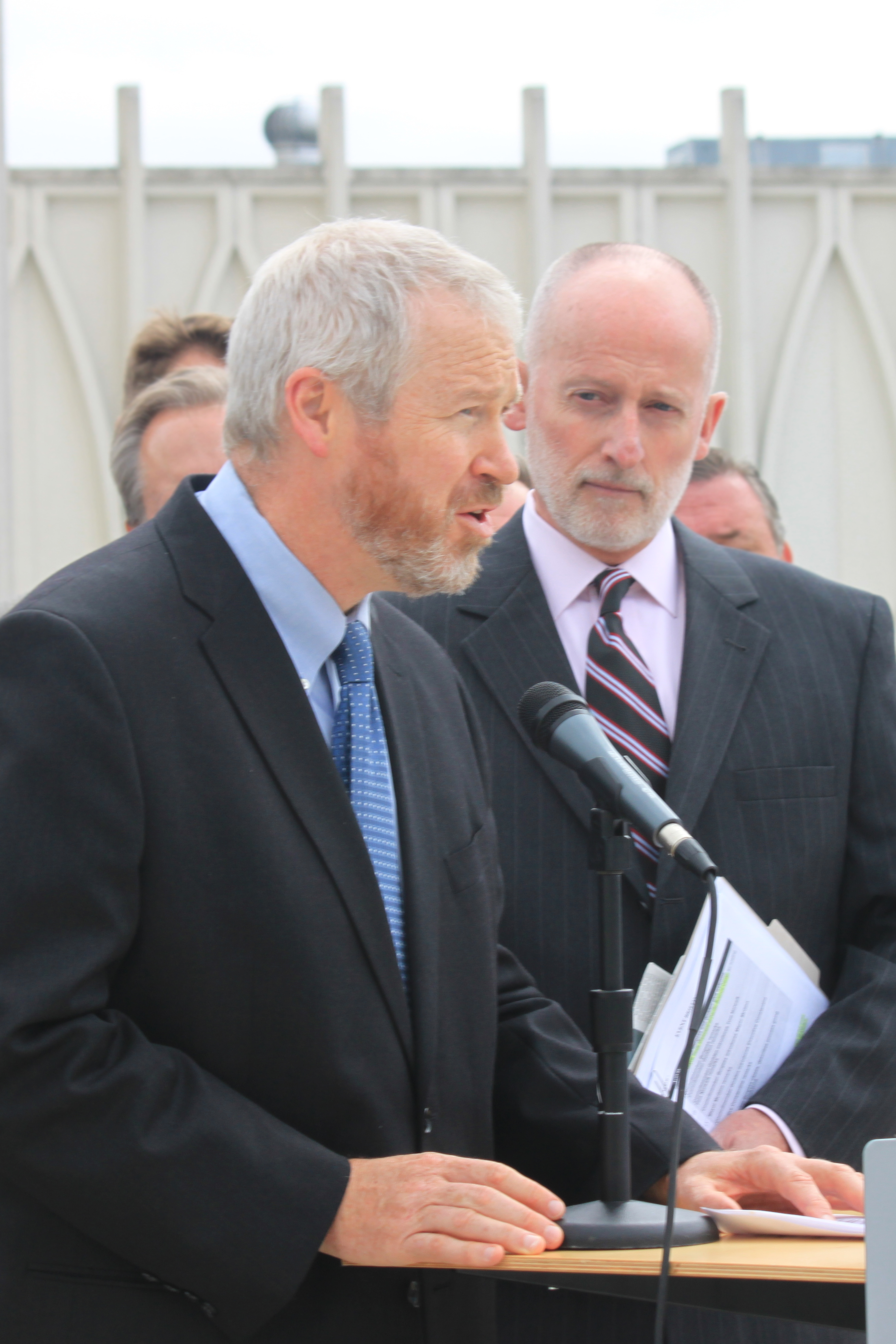 Mayor Mike McGinn and Councilmember Tim Burgess. Not shown: Councilmembers Richard Conlin and Jean Godden, and King County Executive Dow Constantine announced a new initiative to raise millions of dollars to promote tourism in Seattle.